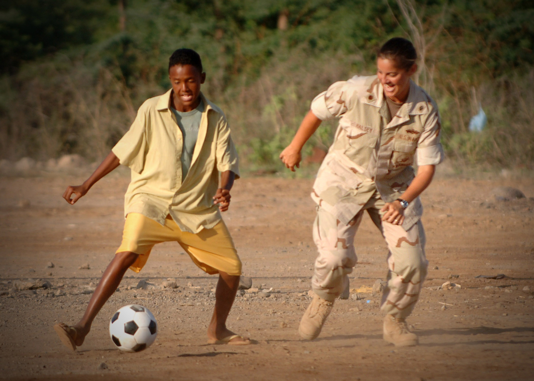 11/20/06 - U.S. Navy Lieutenant Commander Wendy Halsey, with Combined Joint Task Force - Horn of Africa, plays soccer with a Djiboutian boy at an orphanage in Djibouti City, Djibouti, on November 20, 2006. Halsey's friends and family collected more than 300 soccer balls from churches, schools and organizations throughout the United States for donation to schools and orphanages throughout the Horn of Africa. U.S. Department of Defense photo by Chief Eric A. Clement, U.S. Navy. (Released) 061120-N-1328C-142